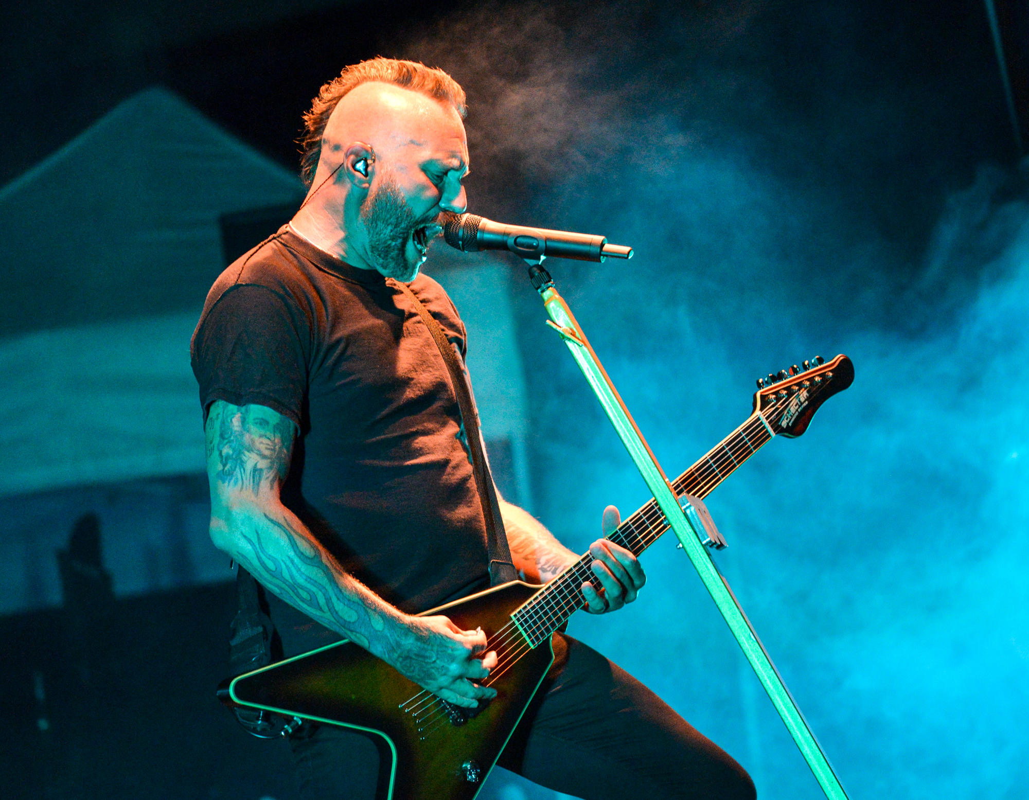 Mustasch performs at Rockfest in Kungsträdgården in Stockholm on July 20, 2018. Band members Ralf Gyllenhammar, Stam Johansson, David Johannesson and Robban Bäck.